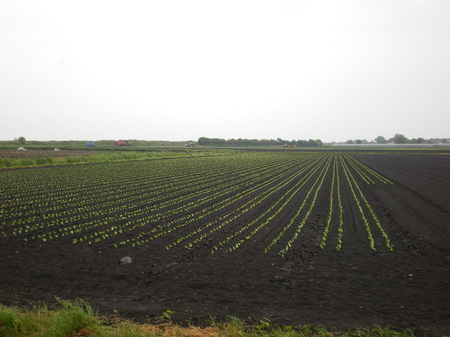 Newly planted crop at High Brow farm